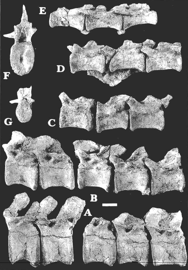 Caudal vertebrae in Begaraaten ostromi gen. et sp. n. from the ?mid-Maastrichtian Nemegt Formation at Nemegt, Mongolia. A-E. Preserved caudals lst-l3th (A-C) and 1Sth-20th (D, E) in lateral view. F. Anterlor view of 1st preserved caudal with articulated part of spine of preceding caudal. G. Anterior view of I I th preser-ved caudal. Scale bar 2 crn.